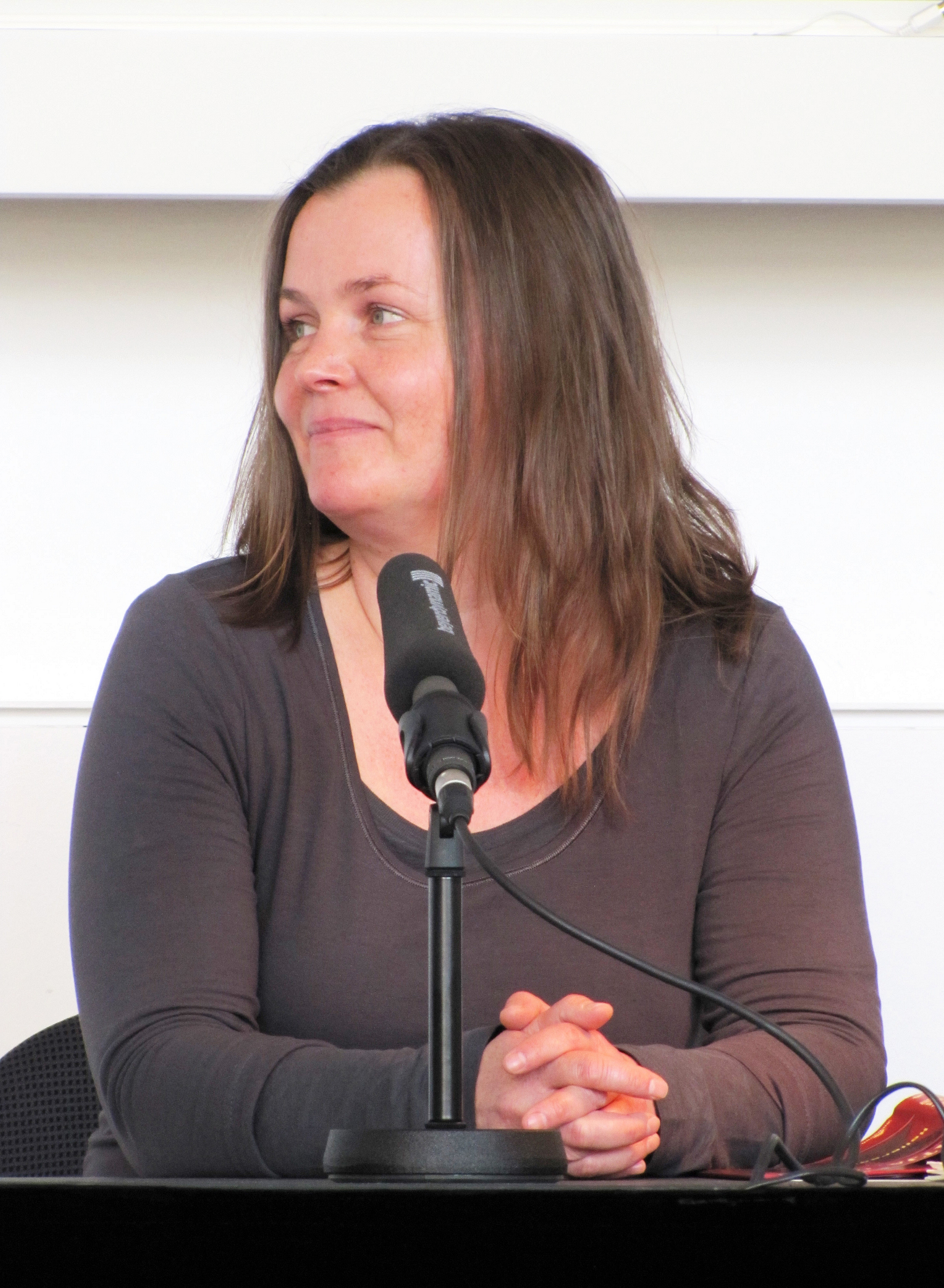 Katja Oskamp, German writer, 2010 in Frankfurt am Main, Germany.